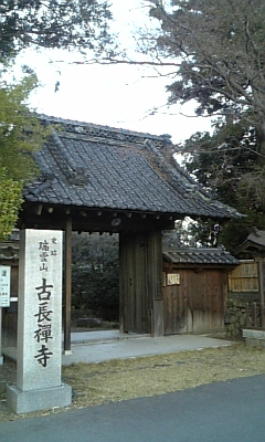 Kochozen-ji in Minami-alps, Yamanashi, Japan